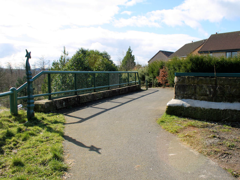 Approach to Lochwinnoch (loop) railway station in 2008.